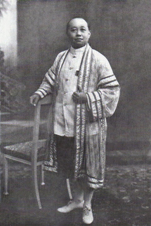 Portrait photograph of King Vajiravudh of Siam wearing the suea khrui gown of a barrister-at-law